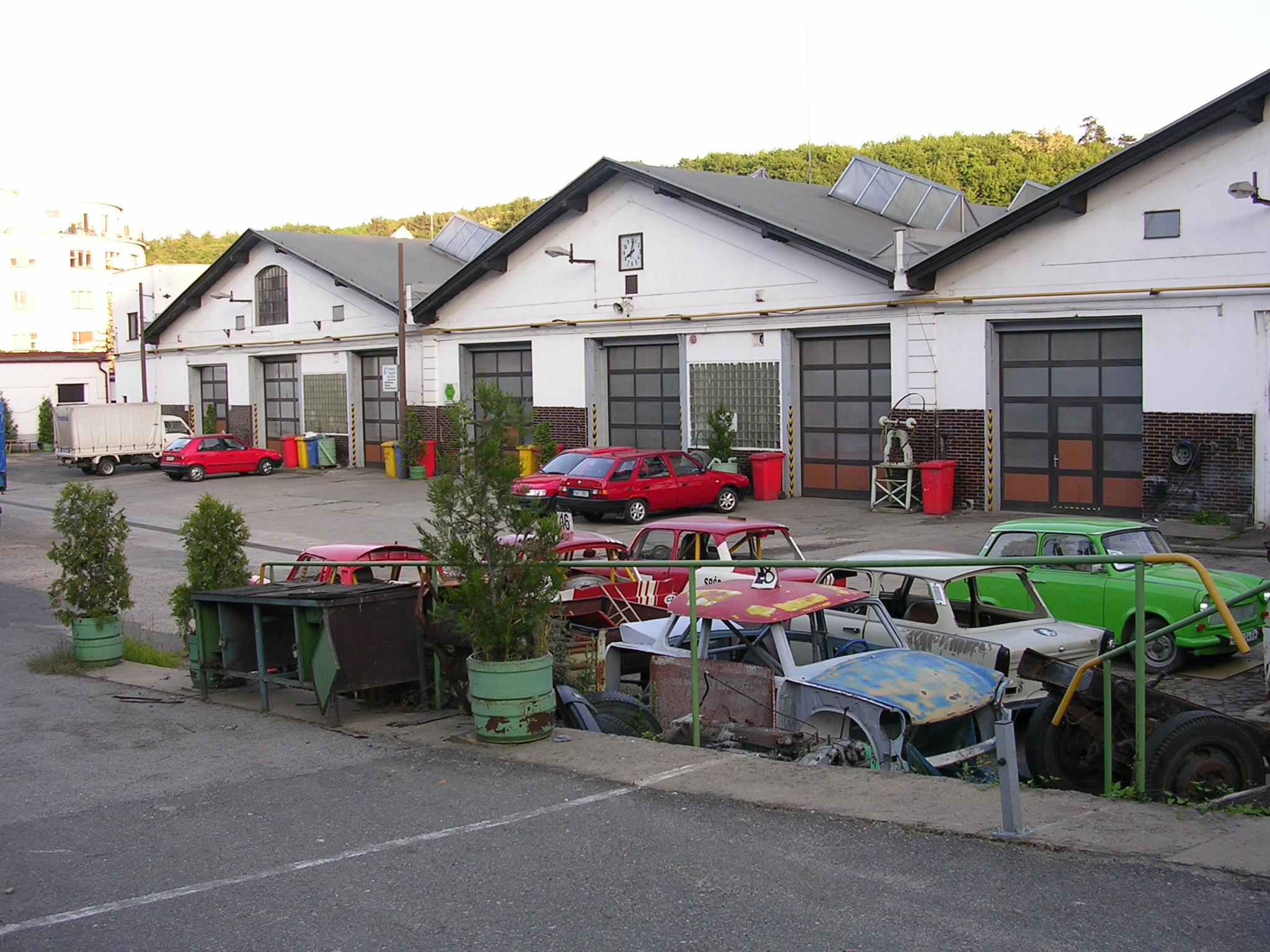 Košíře, Prague, the Czech Republic. The former tram and trolleybus depot.